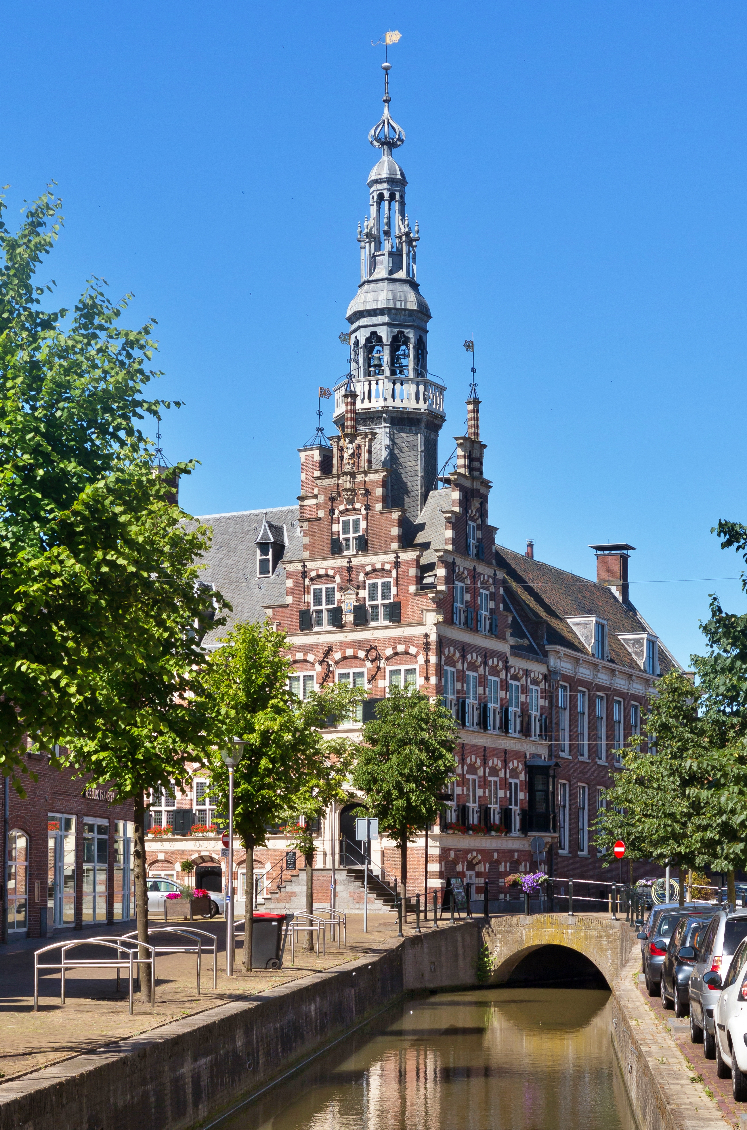 Franeker, townhall